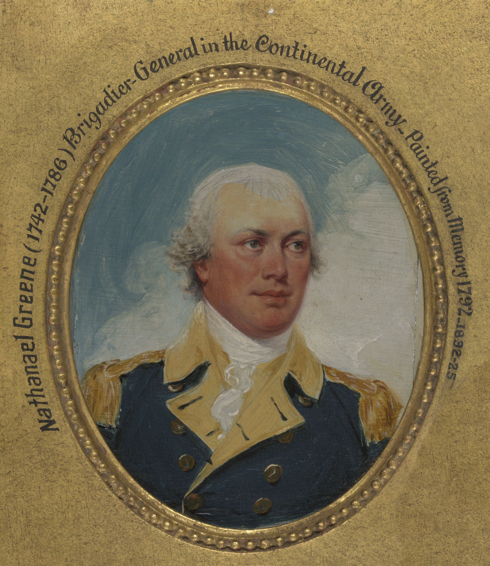 "Nathanael Greene," portrait of the American Revolutionary War general by Connecticut artist John Trumbull (1756-1843). Oil on wood. Courtesy of the Trumbull Collection, Yale University Art Gallery, Yale University, New Haven, Conn.